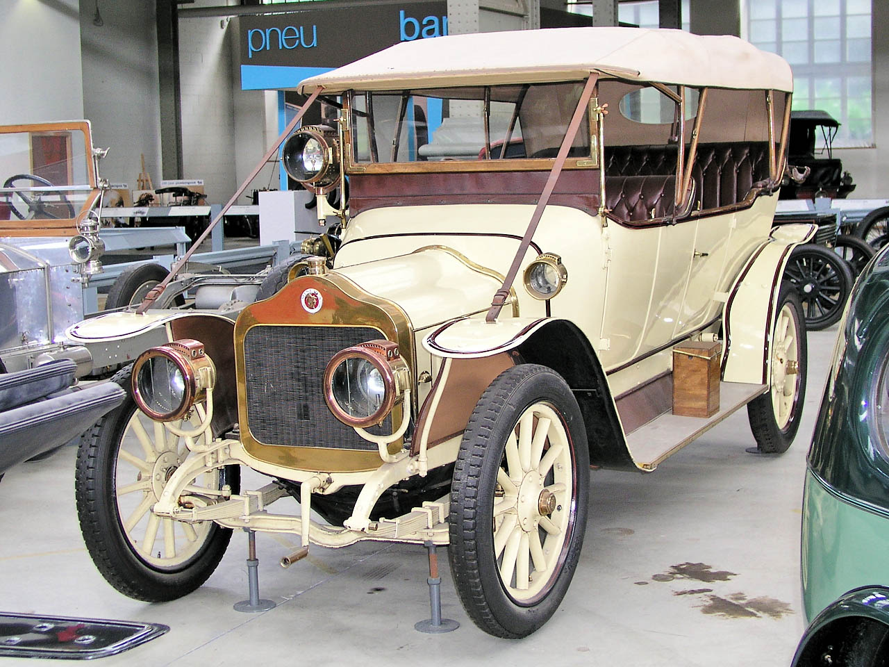 26 HP model powered by a 4084 cc 4-cylinder pair-cast engine with sleeve-valves, made in Belgium by Minerva Motors SA; front-side view